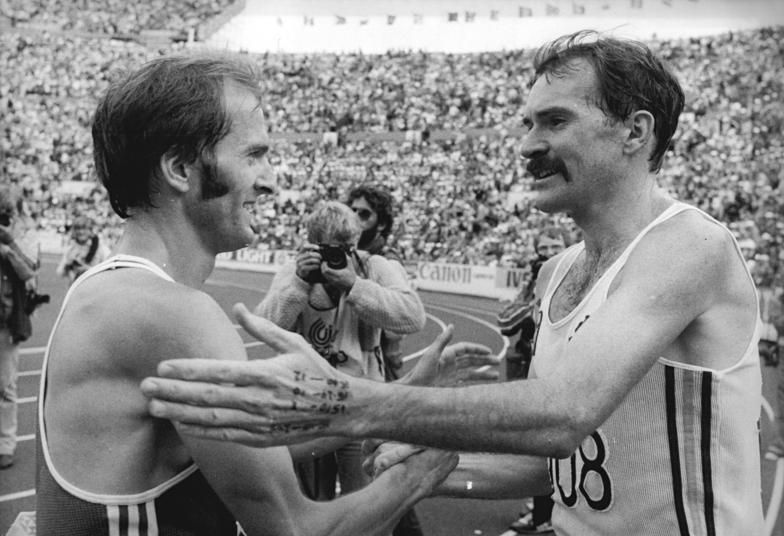 World Athletics Championships-Congratulations are received by the marathon world champion Roberto De Castella (Australia) from third-placed Waldemar Cierpinski (GDR). The two-time Olympic gold medalist from the GDR ran with his second best time of 2:10:37h, the winner needed 2:10:03h.